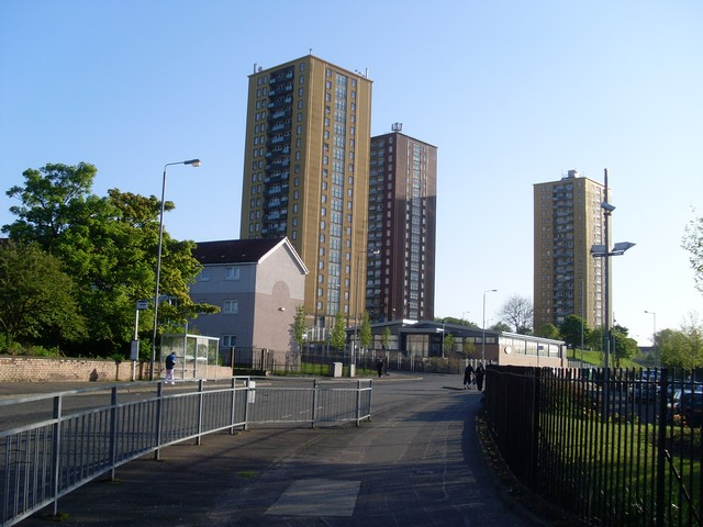 Dougrie Flats from Castlemilk Drive Looking along Dougrie Road.